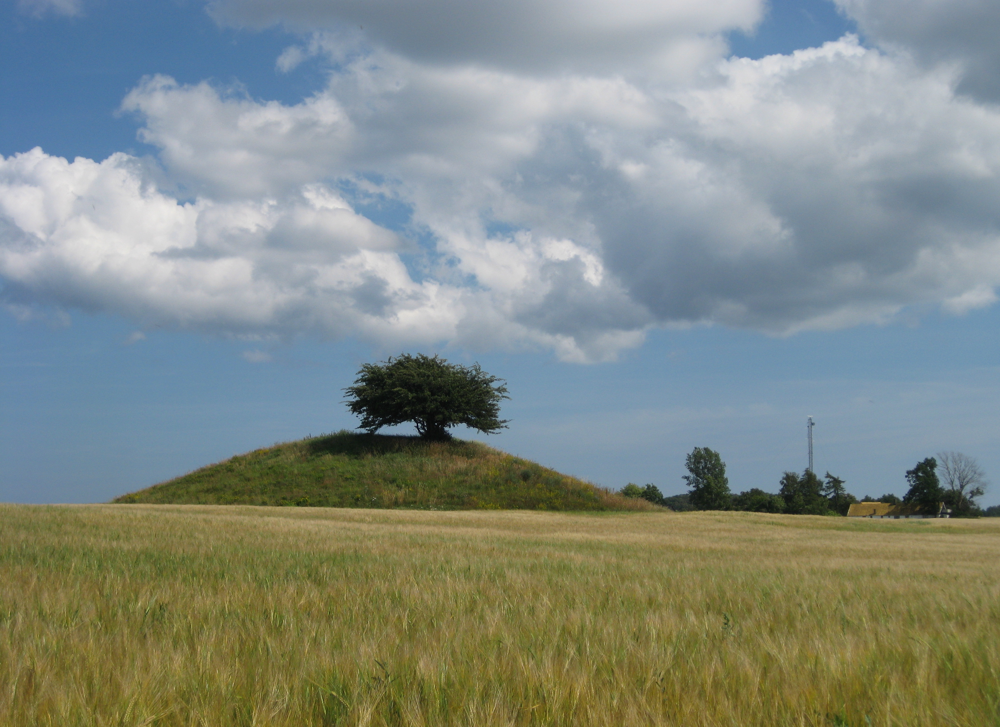 Bolshög in Scania, Sweden